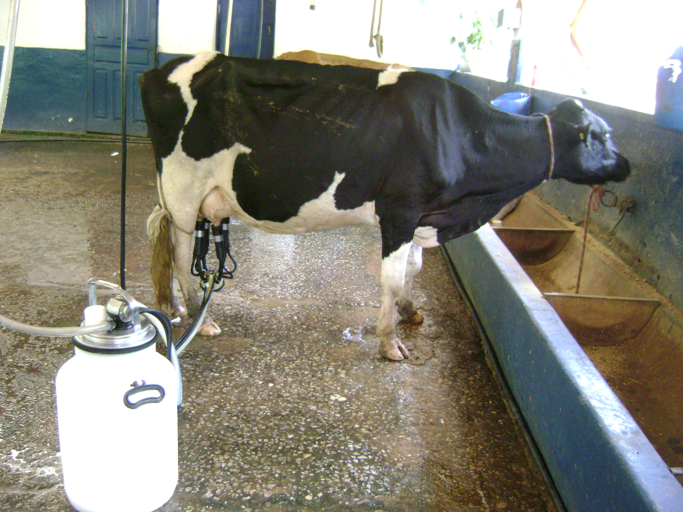 Mechanical milking in Minas Gerais, Brazil.